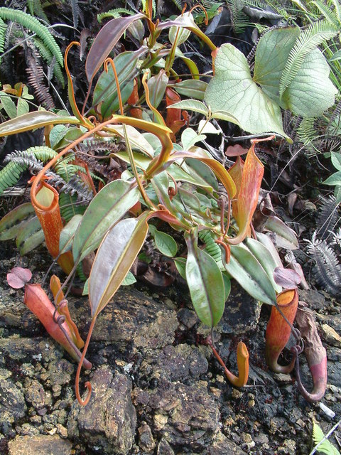 Nepenthes maxima from Western New Guinea (~2600 m asl)